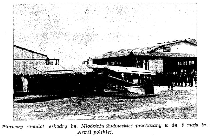 Ceremony of handing over an airplane RWD-8 bought by Polish Jews for Polish Air Force. Pole Mokotowskie airfield May 1938.